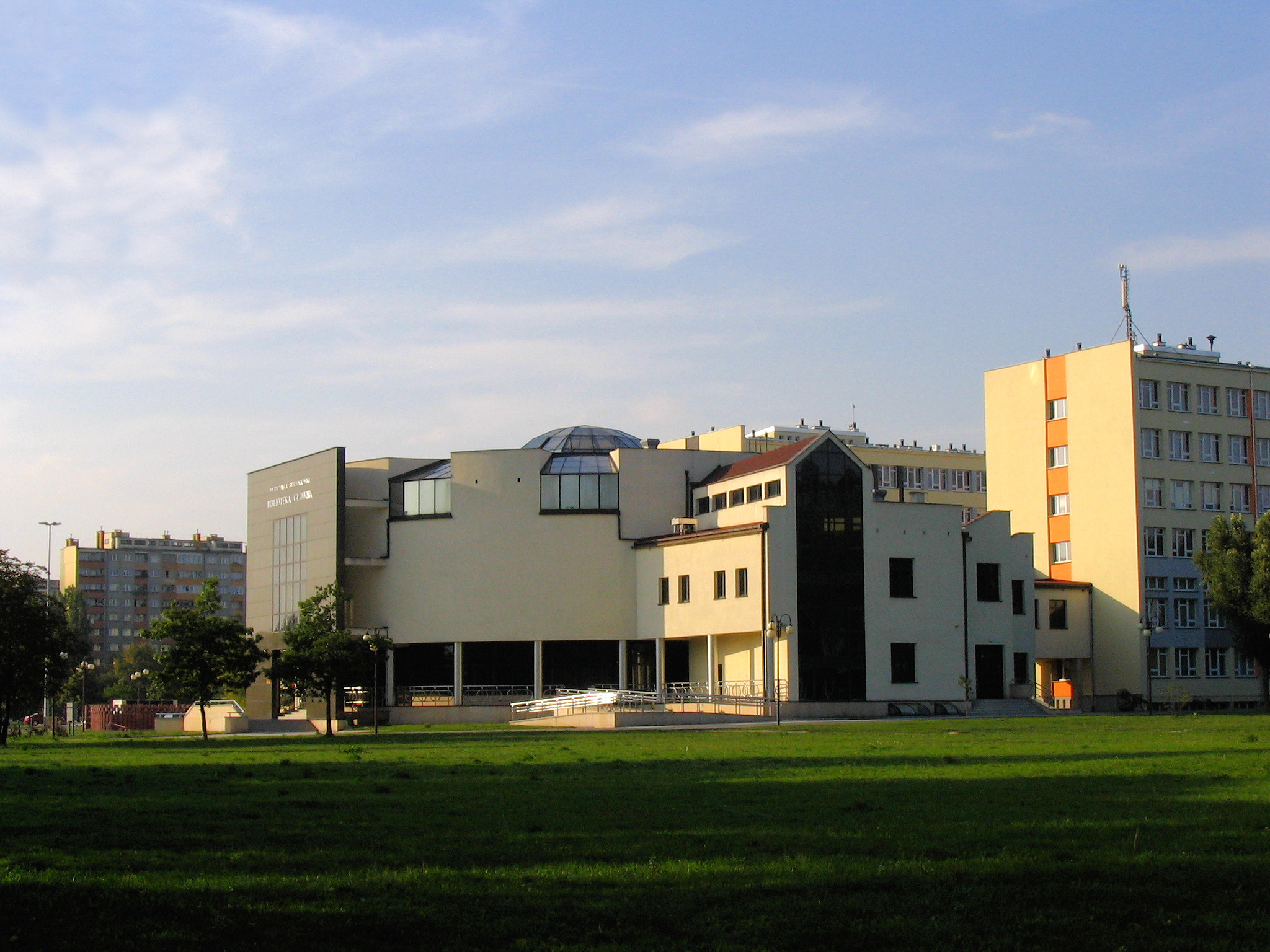 Kielce University of Technology, in the foreground you can see The Main Library